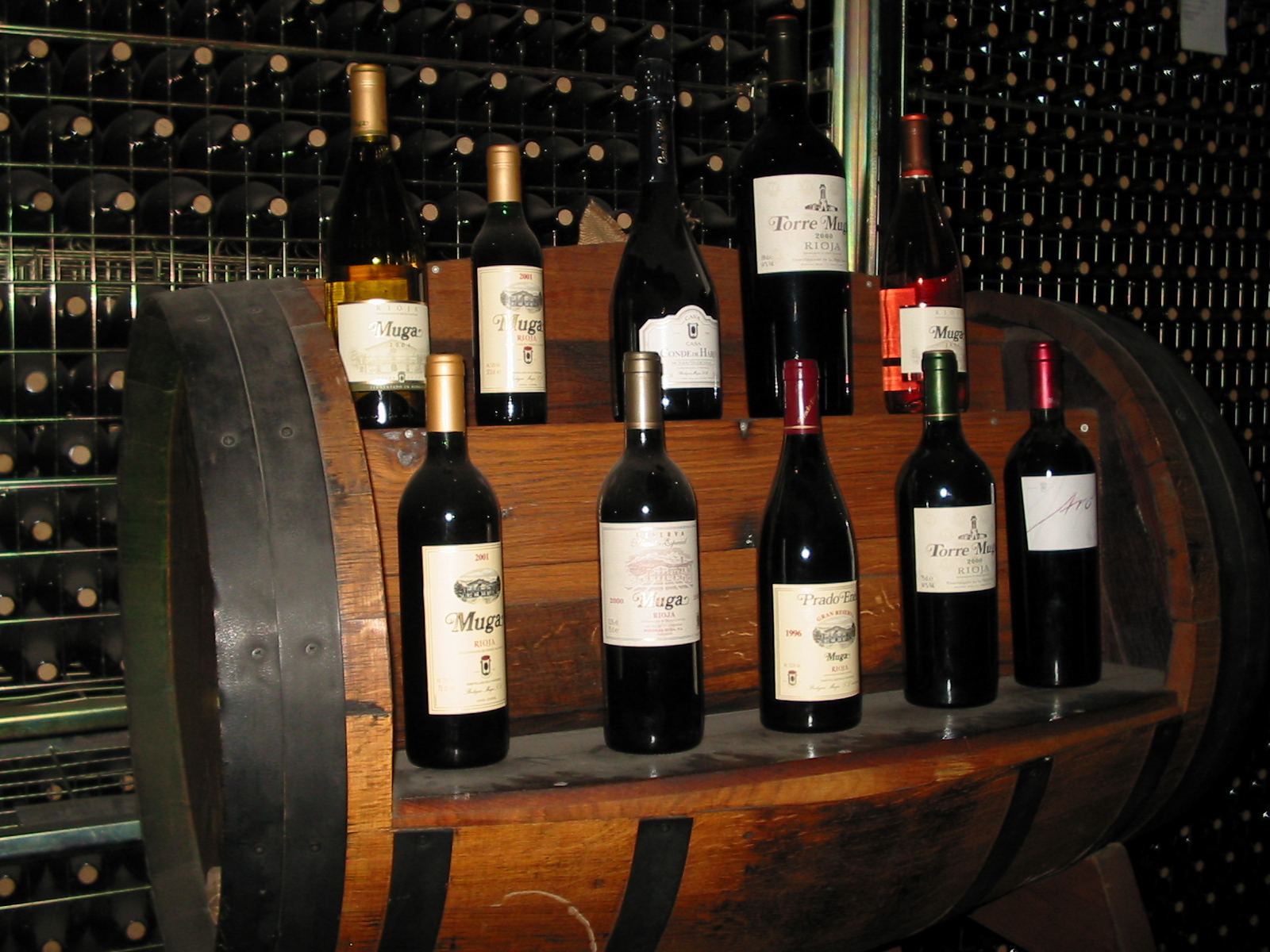 Bottles of wine in a cellar in Haro (Spain)